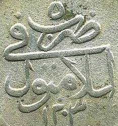 Detail of a Ottoman coin from 1203 H.